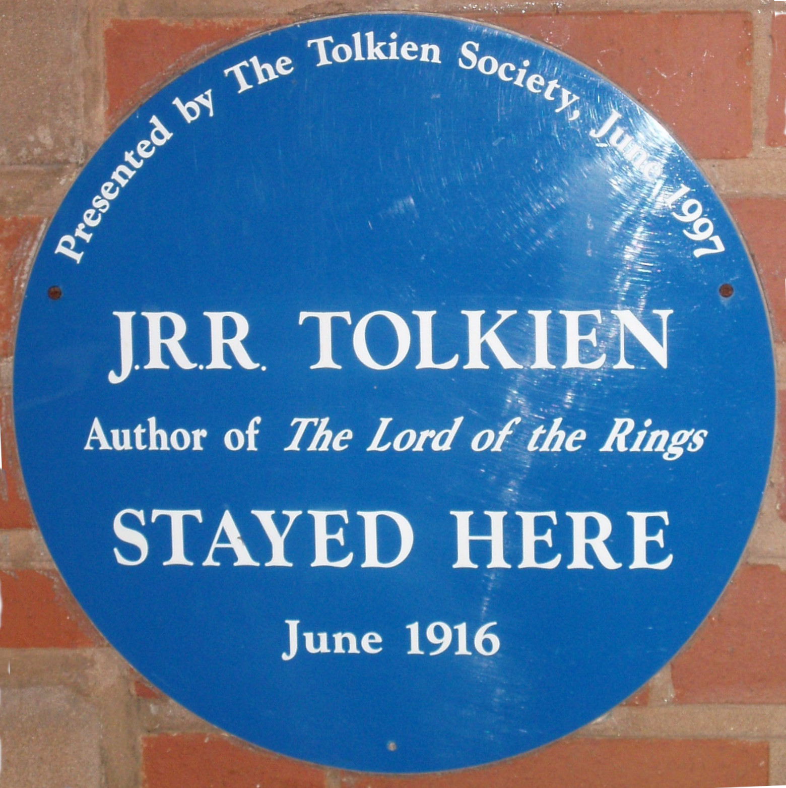 Blue plaque on the Plough and Harrow hotel, Birmingham, commemorating J. R. R. Tolkien's stay there in June 1916. Photographed in October 2005.